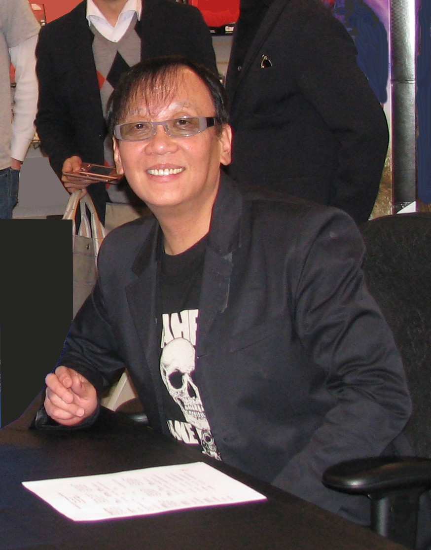 Yuji Horii signing in Palo Alto.